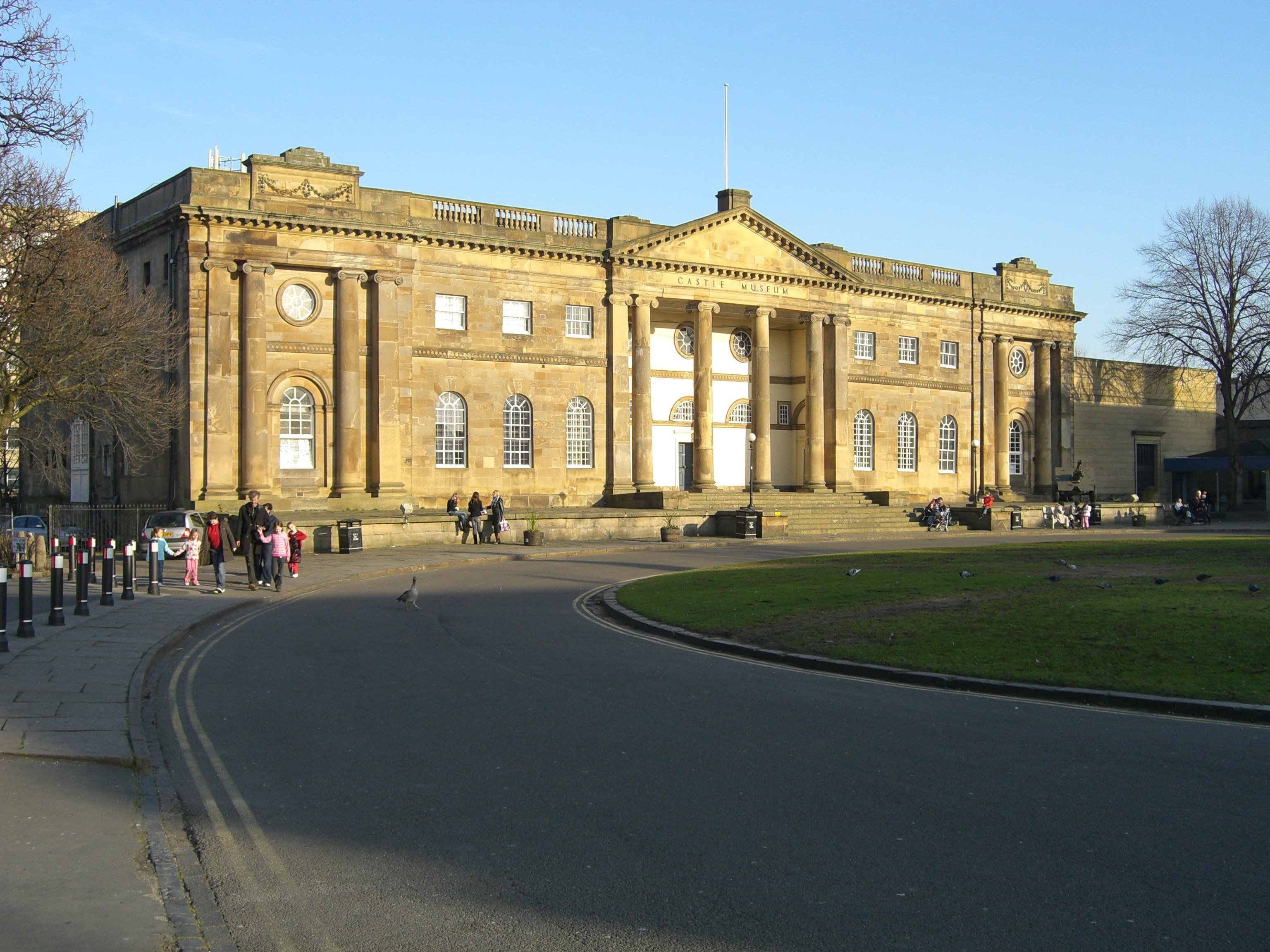 Crown Court York